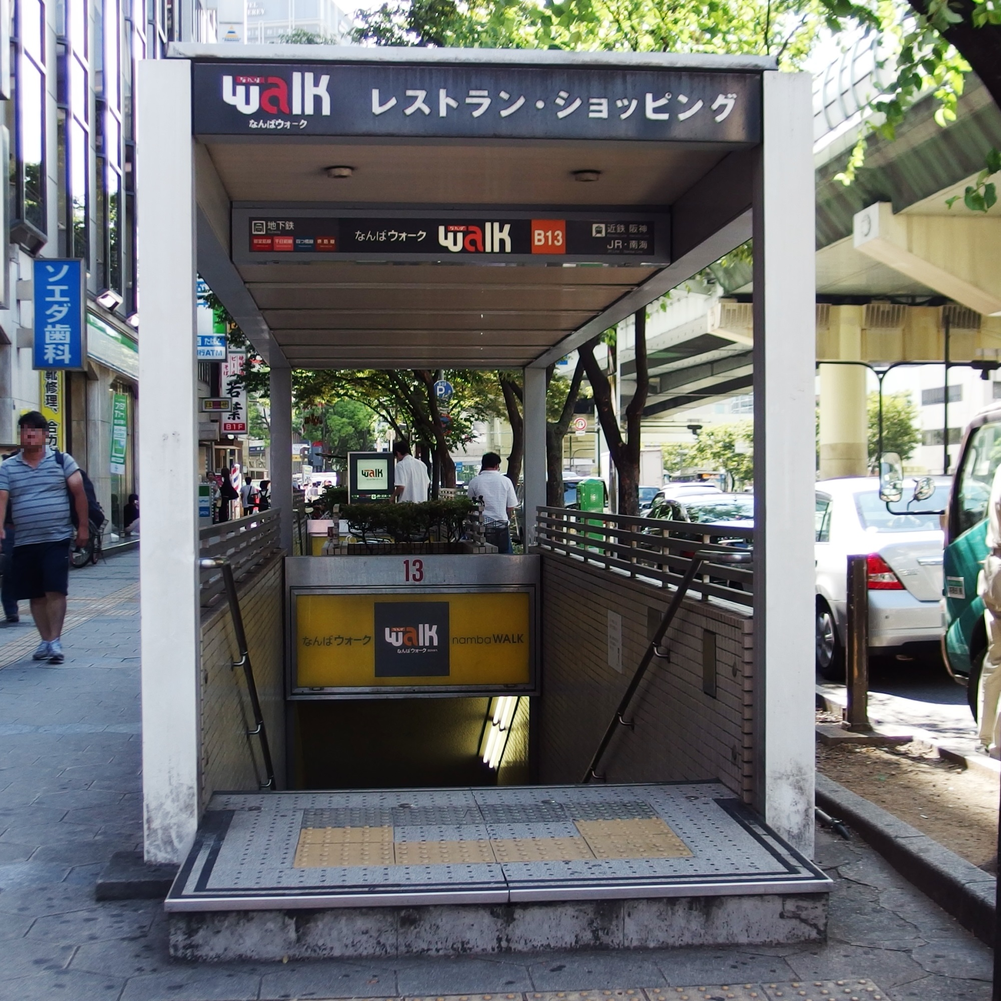 Namba_Walk, Osaka, Osaka Prefecture, [Japan